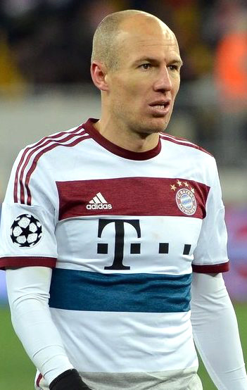 Arjen Robben playing for FC Bayern Munich against Shakhtar Donetsk in 2015